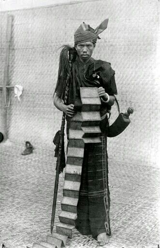 batak priest with priest staff, pustaha, and medicine horn